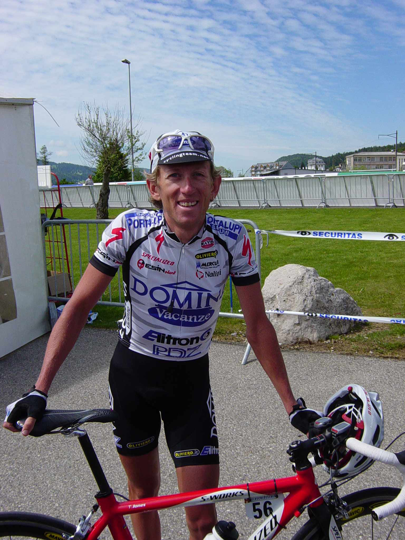 Tim Jones prior to Batterkinden stage at 2004 Tour De Suisse